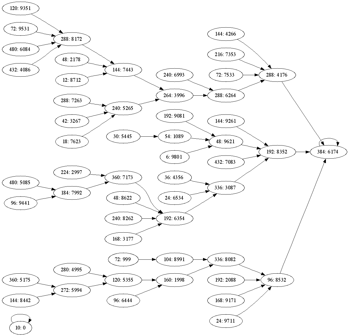 Graph of the Kaprekar process of four digit number transformations converging on 6174. Includes all nodes at the second step and beyond. Each node also includes the count of how many nodes convert to that number. For example, 120 four digit numbers transform to 9351. Afterwards, they progress through 8172, 7443, 3996, 6264, 4176, and end up at 6174.